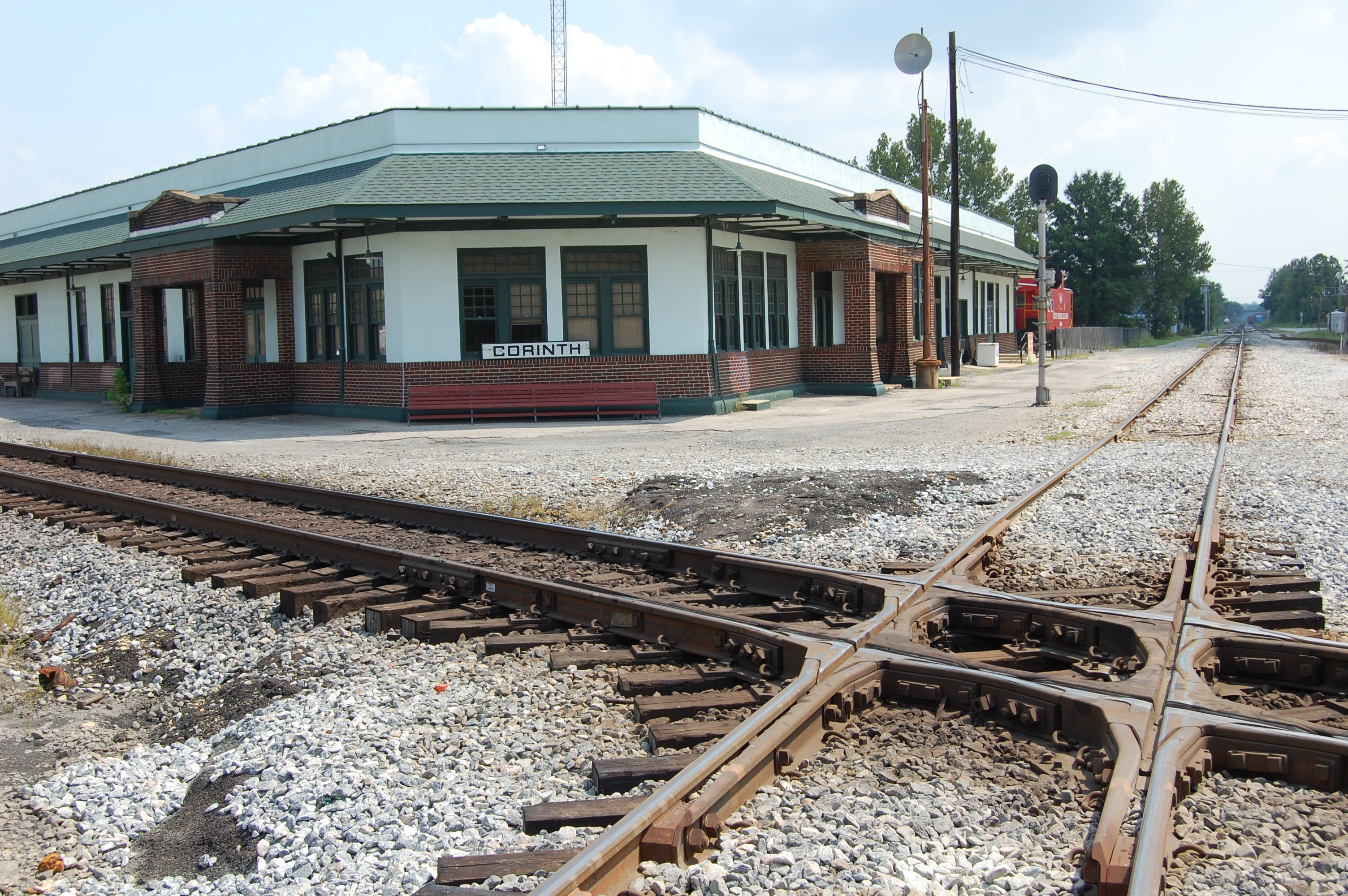 Zack Steen, May 2010, Corinth, Mississippi, Nikon D40, Historic Crossroads Depot, The Battle of Corinth become of the most important battles during the Civil War due to the city's vital location of rail lines connecting the North and South. Today the historic Crossroads Depot is a museum.